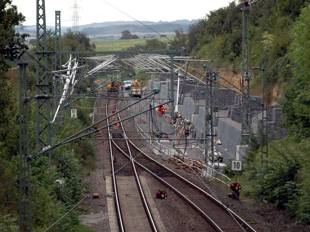 construction site for the 2nd track between Marbach am Neckar and Freiberg am Neckar.